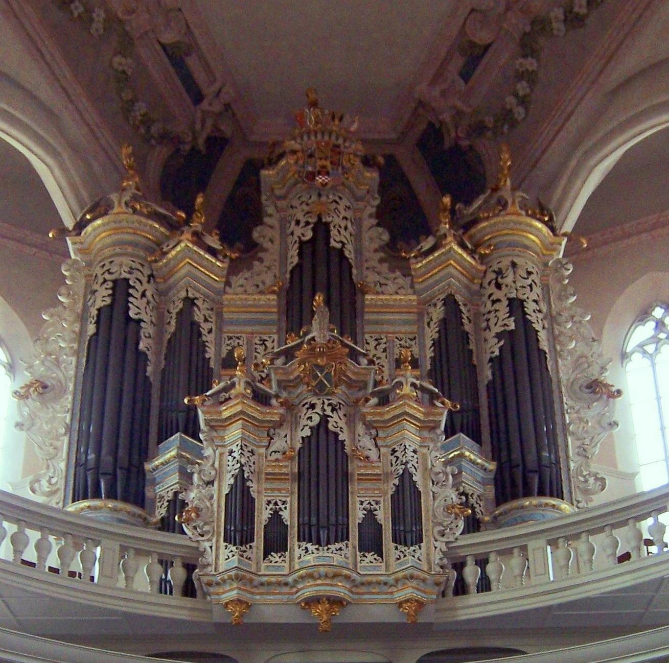 Organ, made by Zacharias Hildebrandt, of the Dom St. Wenzel in Naumburg, Germany